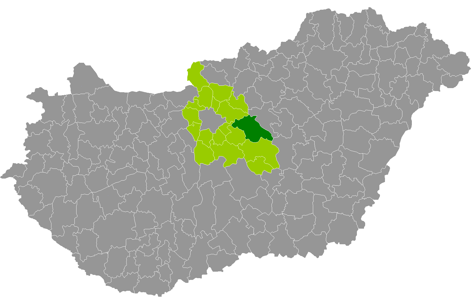 Location of Nagykáta District, Pest, Hungary